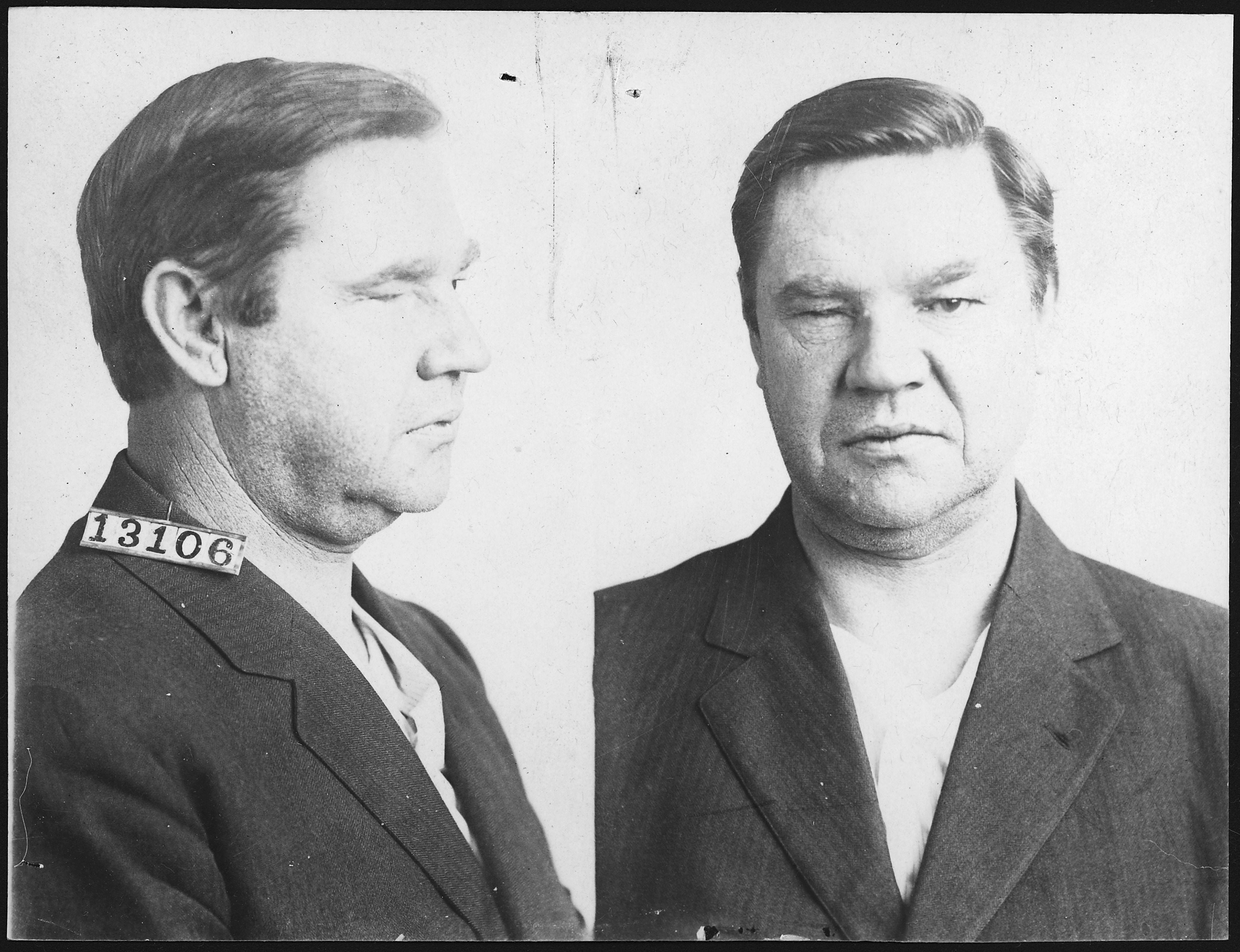 Scope and content: International Workers of the World (WW) labor leader from illinois; convicted of obstruction of military service and sedition.